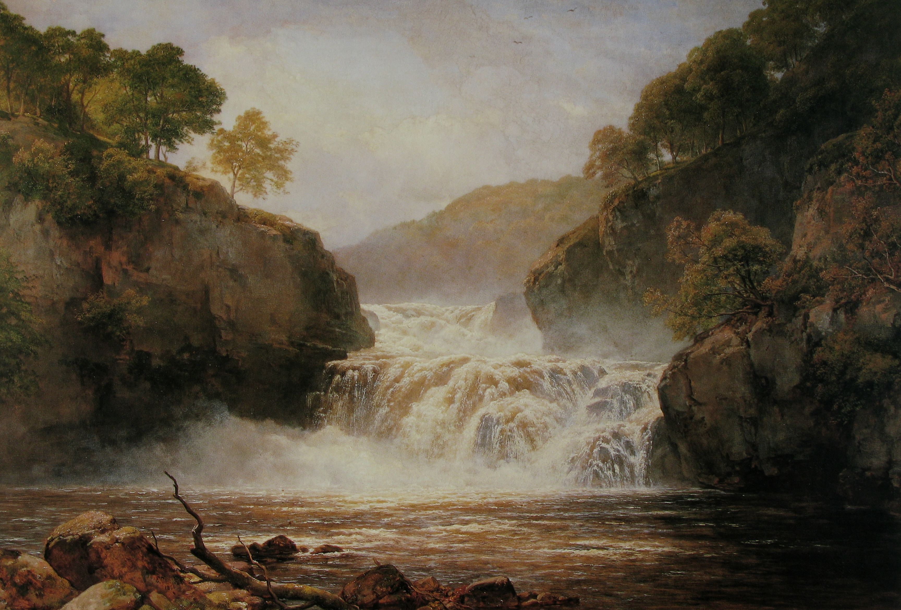 Falls in the Clyde Corry Lynn